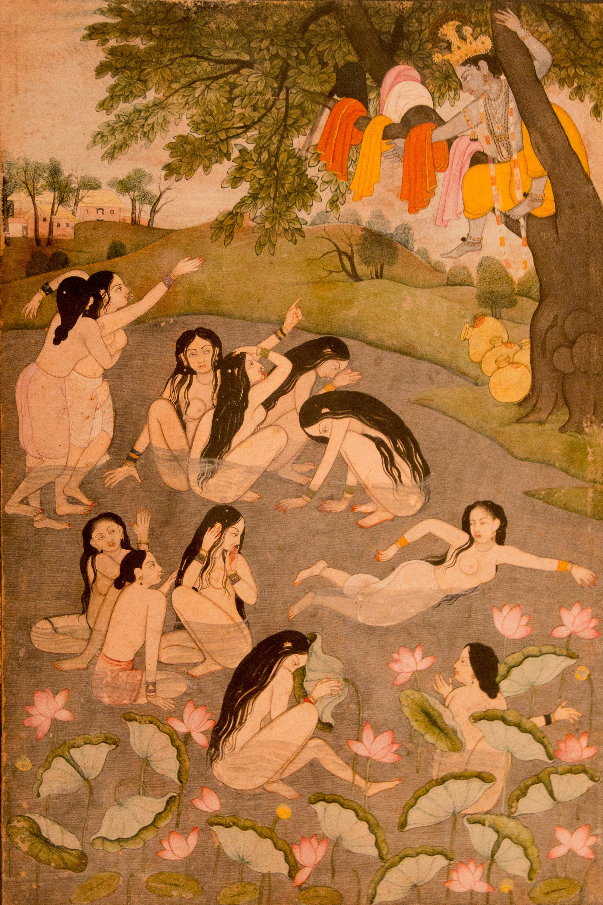 Based on the story of the Bhagavata Purana.